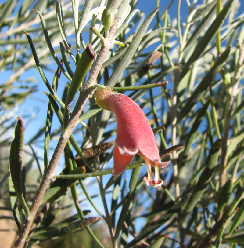 Eremophila oppositifolia, Royal Botanic Gardens Cranbourne, Victoria, Australia